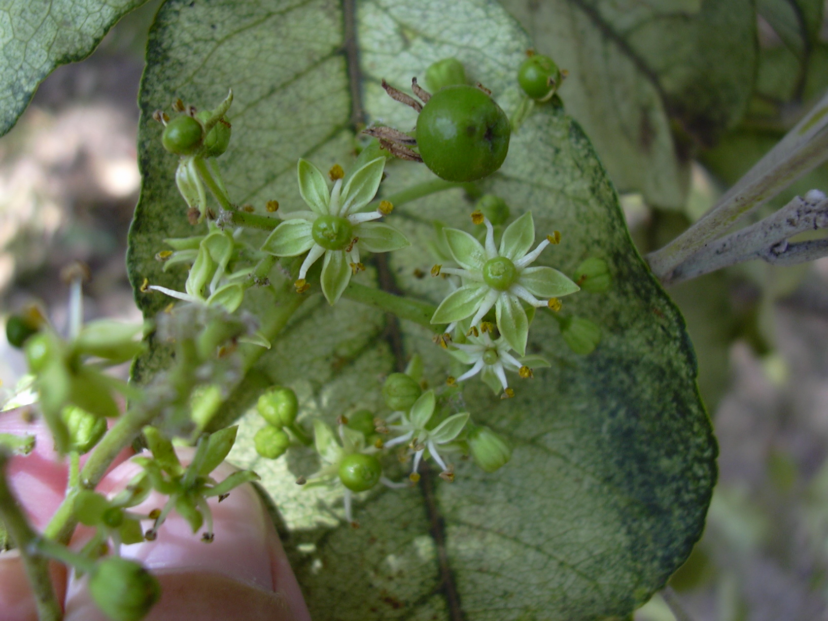 Casimiroa edulis (flowers and leaf damaged by Corythuca gossypii). Location: Maui, Ulupalakua